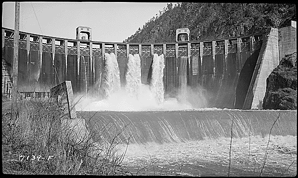 View of Calderwood Dam from downstream, photographed by TVA in 1939. The photo was originally titled "Calderwood Dam, 1939." ARC identifier 280745.